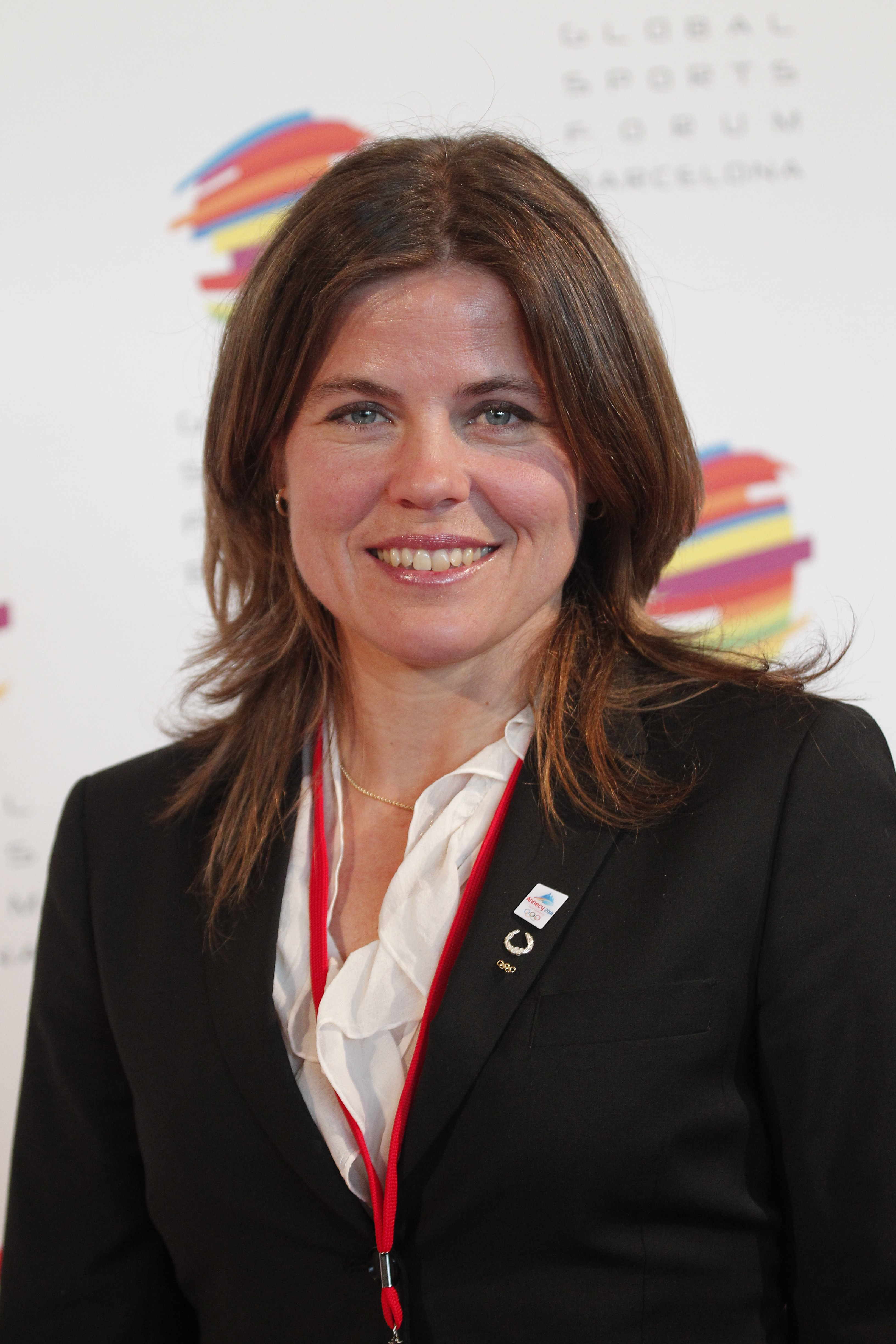 Former Swedish alpine skier and Olympic gold medalist Pernilla Wiberg in a promotional photo for the My Big Day foundation.